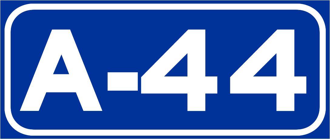 Diagram of motorway sign of Spain